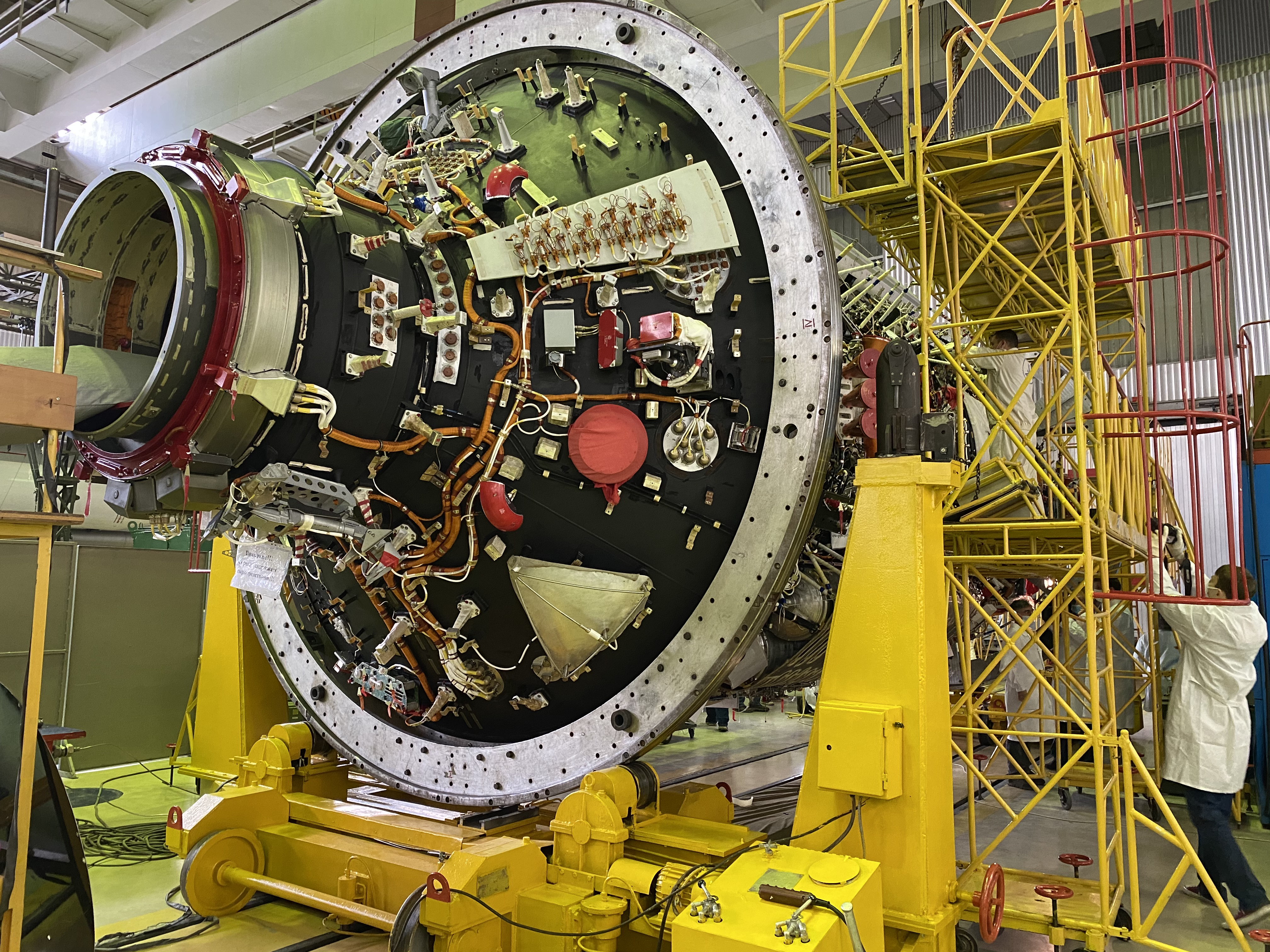 Nauka Multipurpose Laboratory Module (MLM), the ISS module, at Khrunichev Center before the delivery to Baikonur